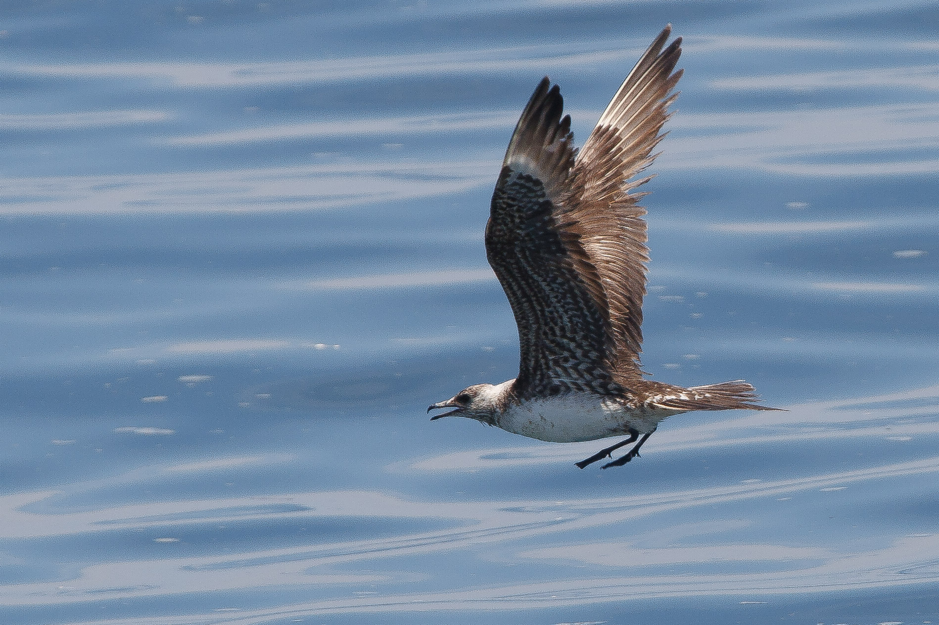 Immature Arctic Skua (7?). Whitish head, fairly plain white underparts, light uppertail covert barring. Obvious single white primary patch below, otherwise neatly barred underings. Moulting innermost primaries.